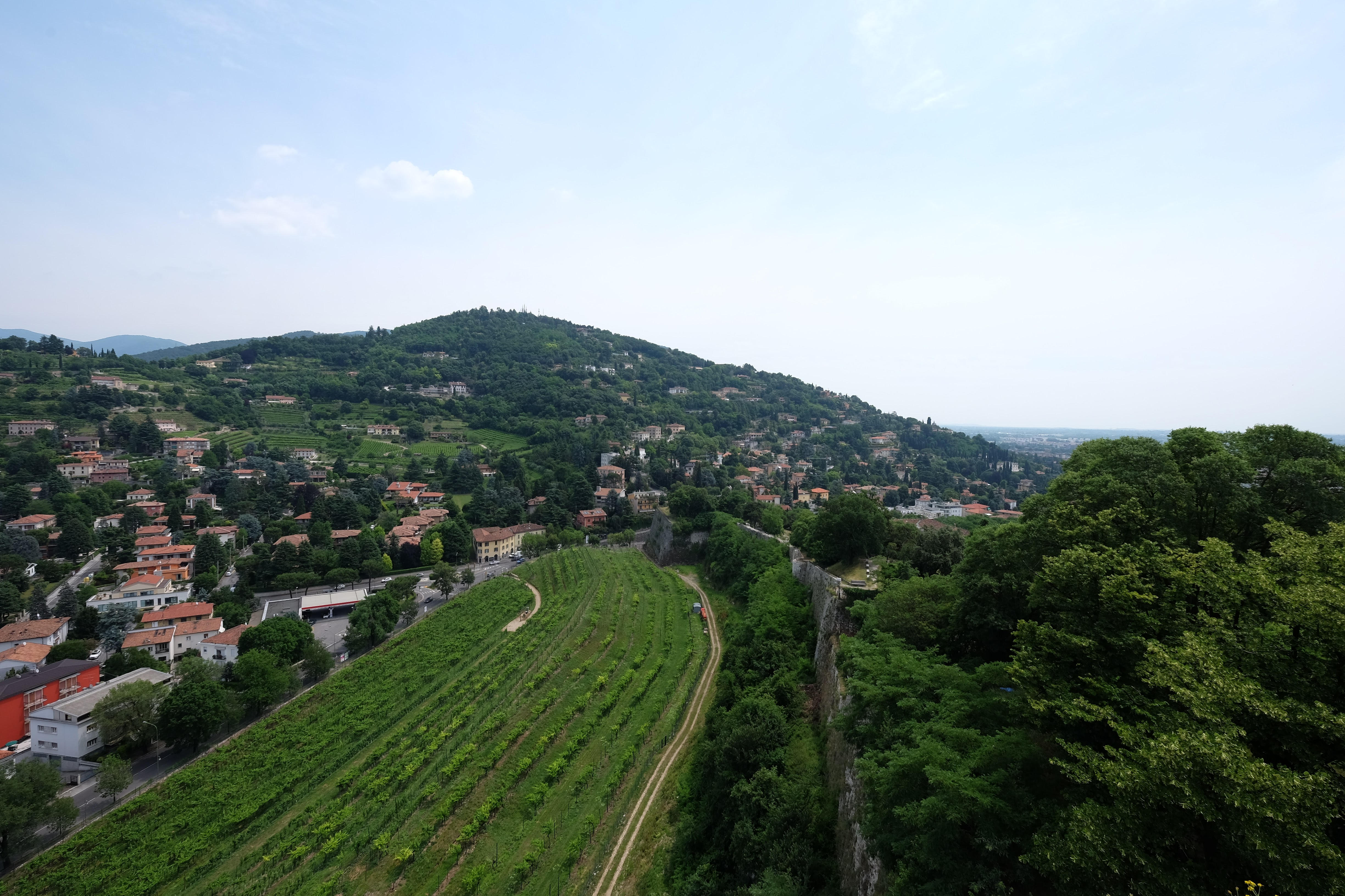 Brescia, Province of Brescia, Italy